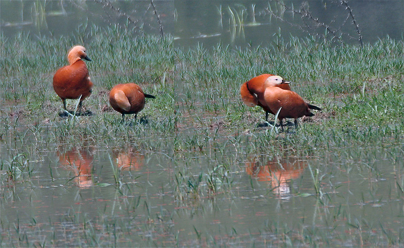 Ruddy Shelduck (Tadorna ferruginea) at Keoladeo National Park, Bharatpur, Rajasthan, India.